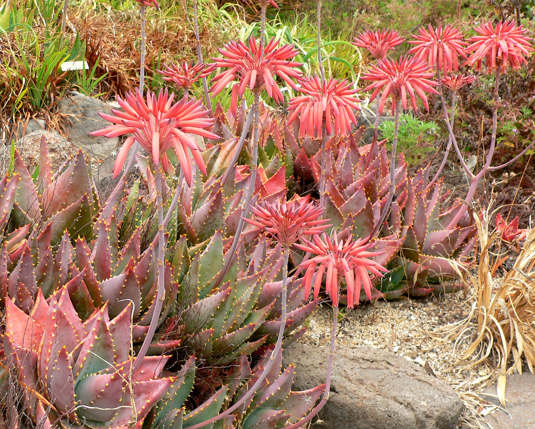 Photo of Aloe perfoliata (Syn. Aloe mitriformis) at the University of California Botanical Garden